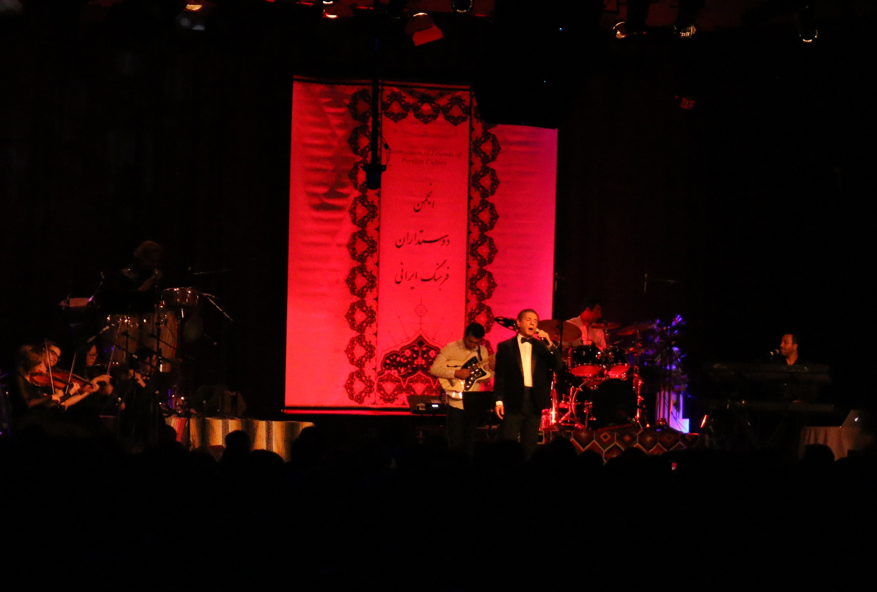 Persian pop singer Aref at Renaissance Convention Center, Chicago, Sep 2019 - Photo: Persian Dutch Network